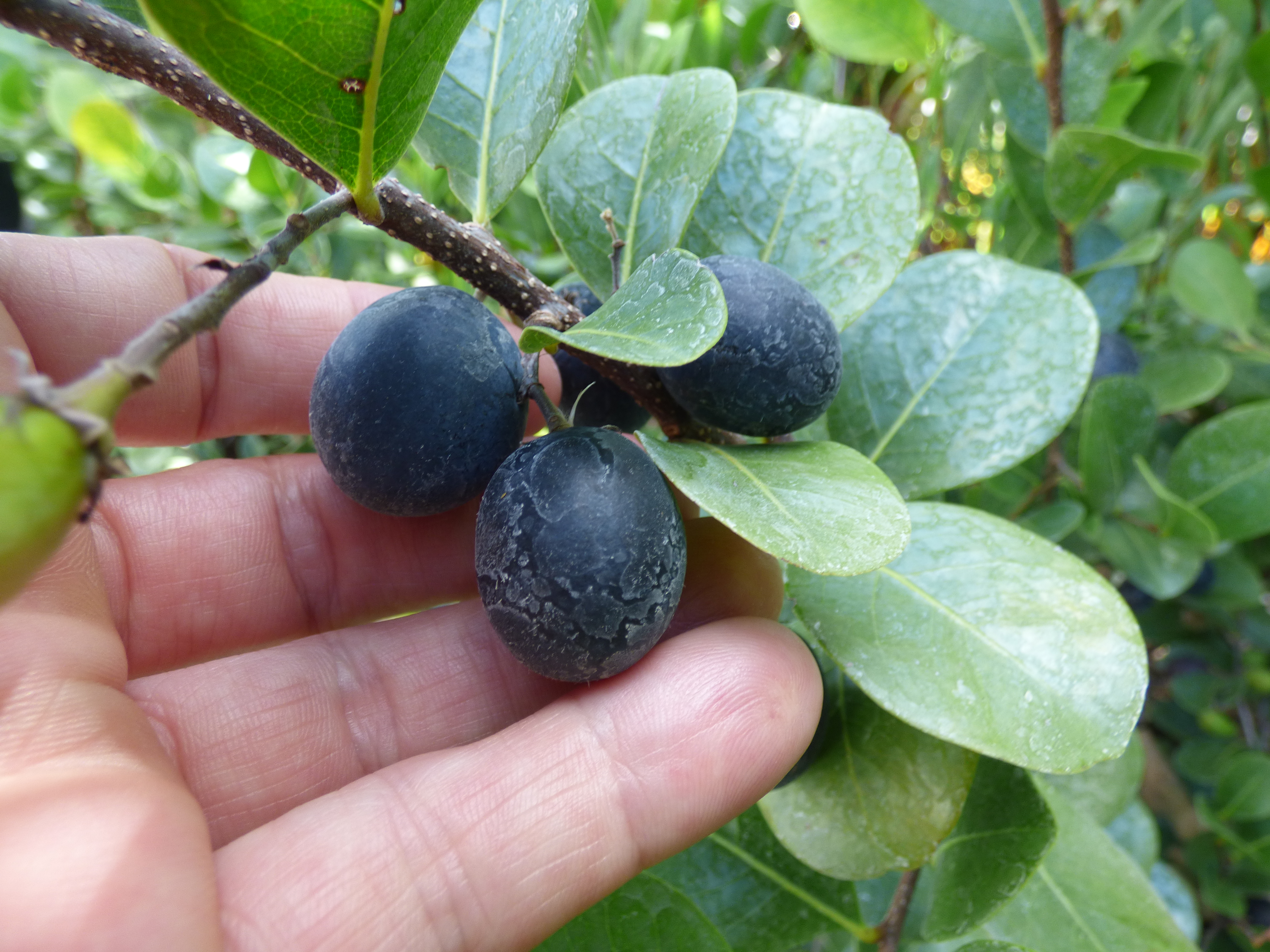 Chrysobalanus icaco (Cocoplum) Fruit leaves at Vitas Healthcare Delray Beach, Florida. July 18, 2016 #160718-0260 Image Use Policy